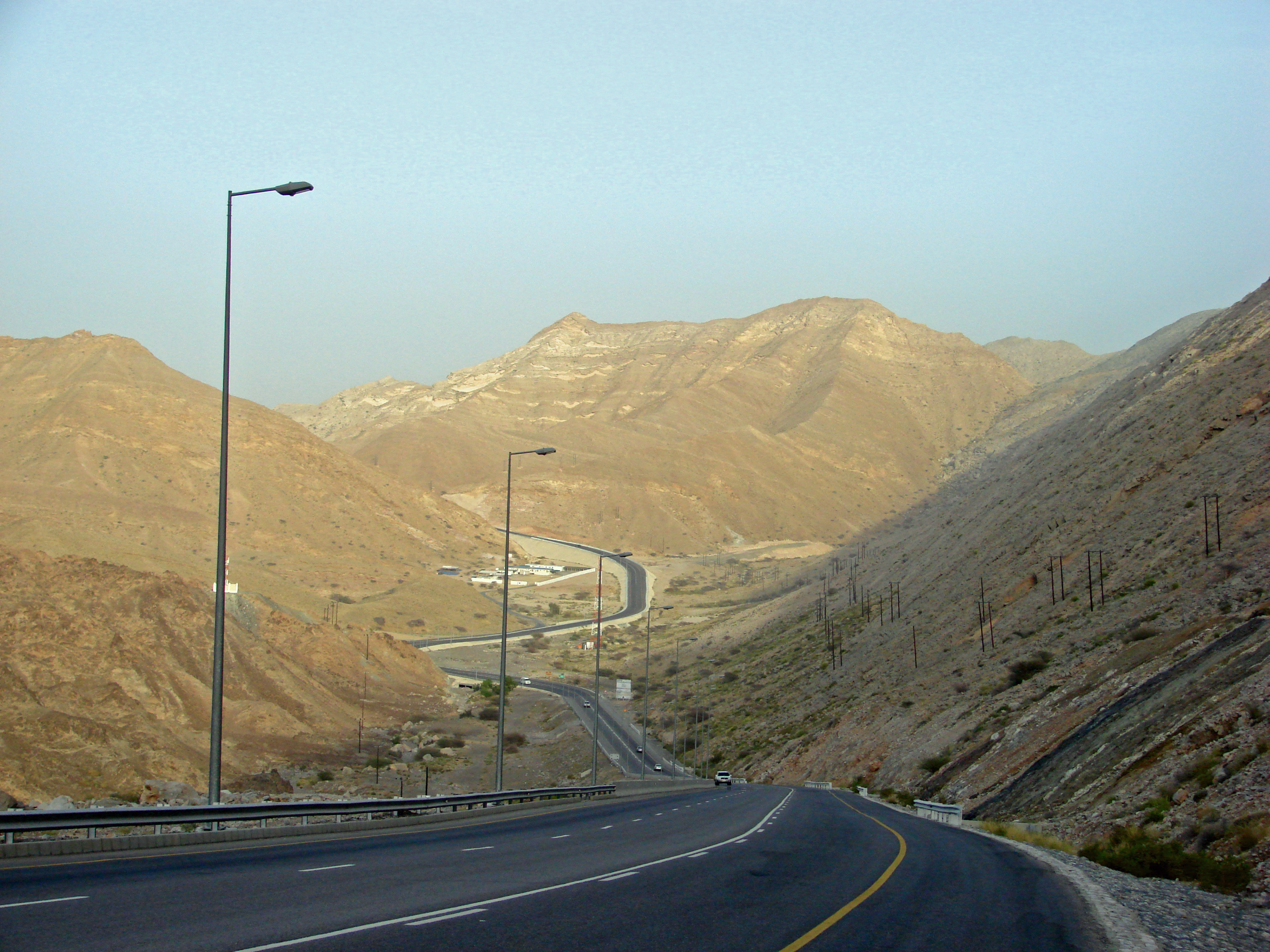 Road towards Qantab, Muscat.